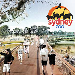 An artists impression of the Sydney Zoo